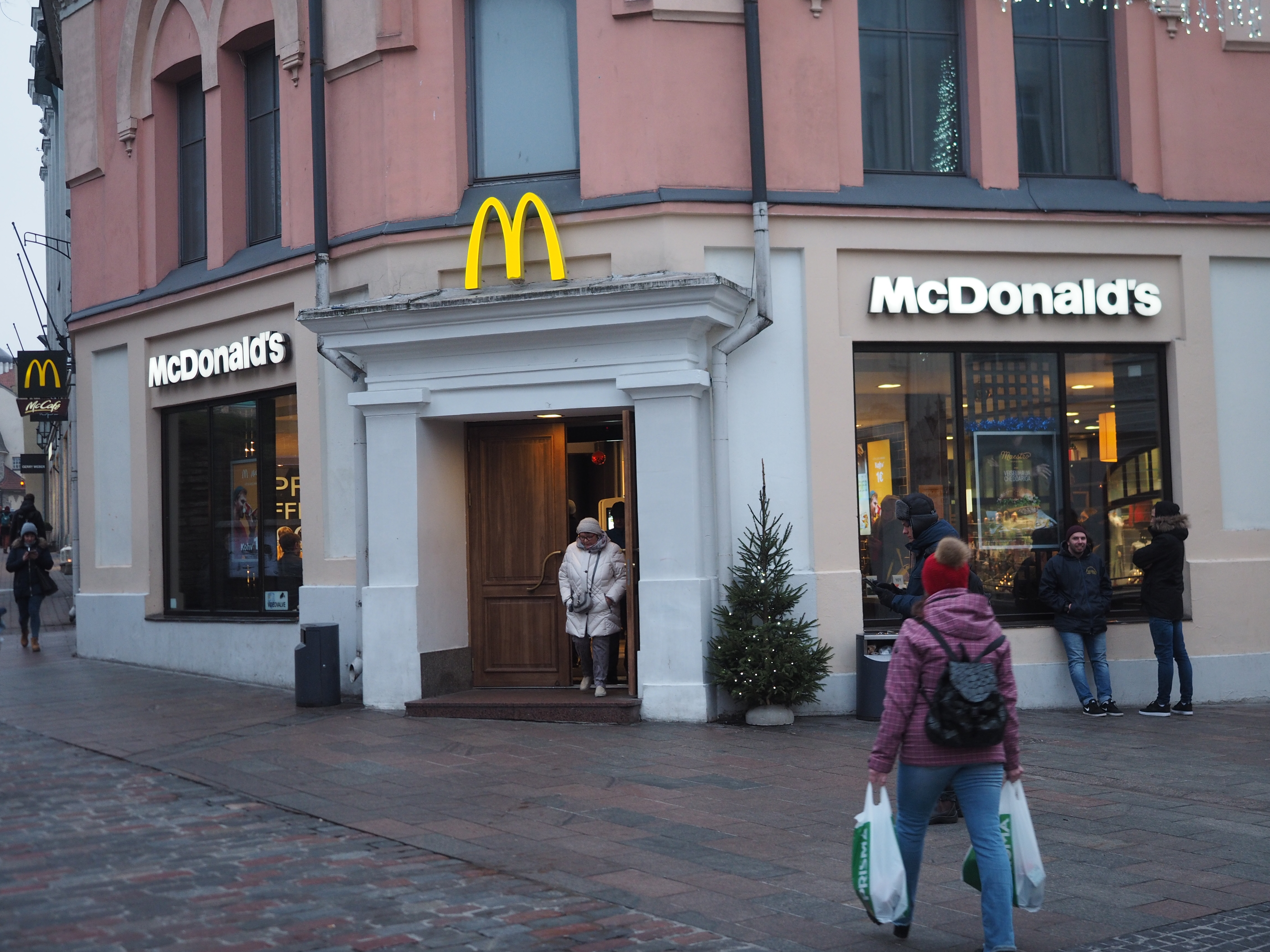 A McDonald's in the Old Town of Tallinn, Estonia. This was the first McDonald's in Estonia.